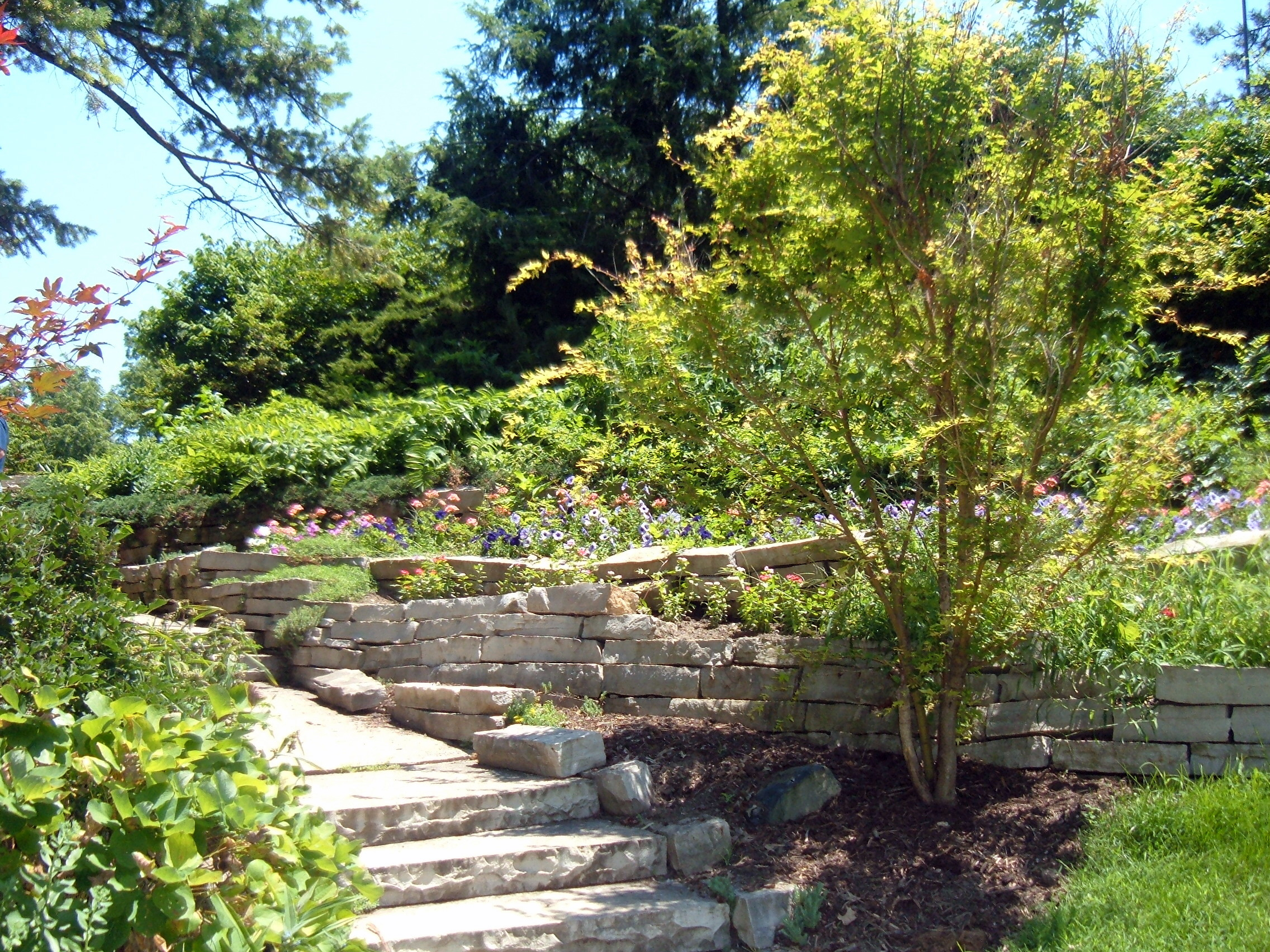 Nelson Park, Decatur, Illinois.